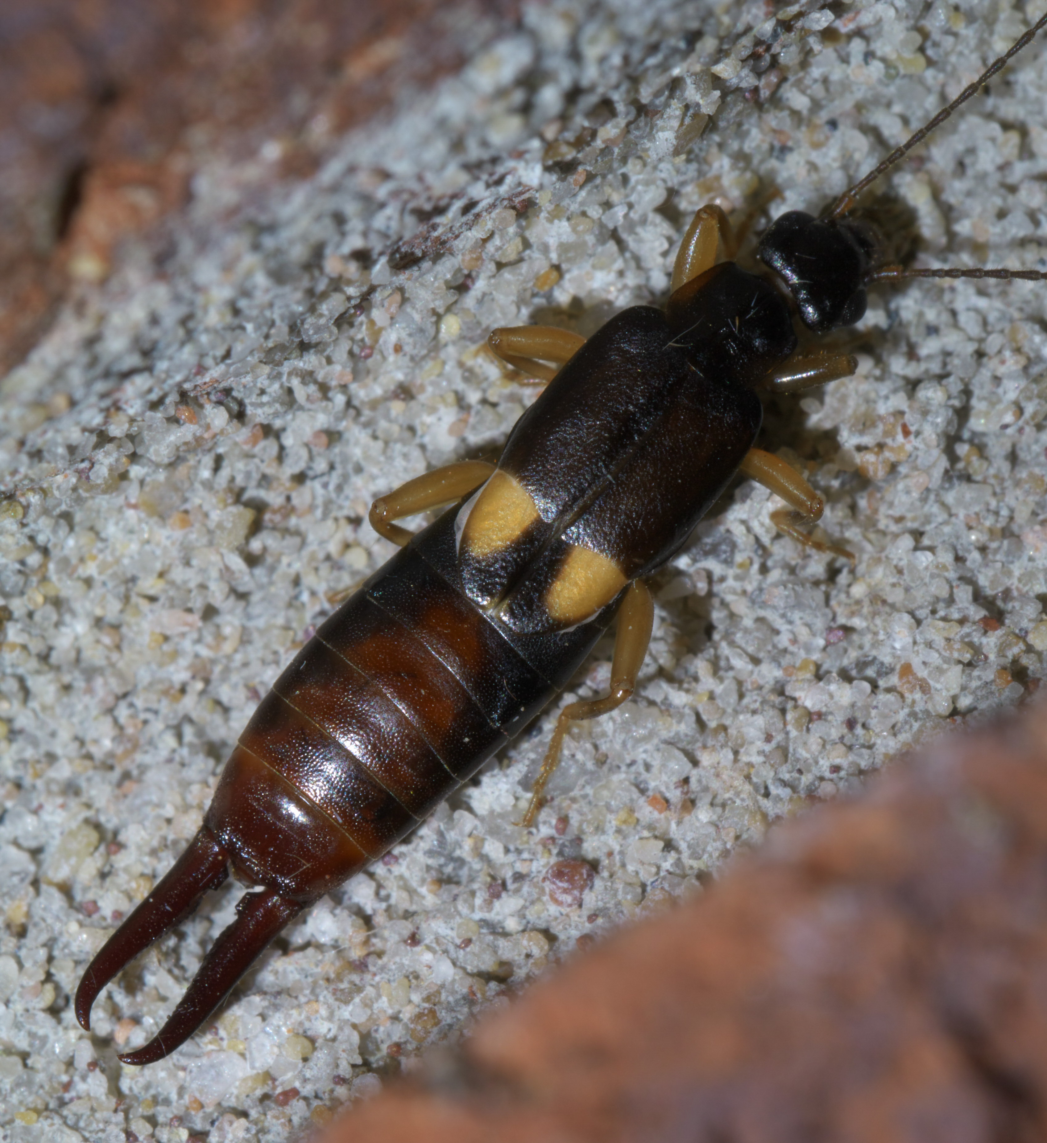 Vostox brunneipennis, Family: Little Earwigs, Size: 13.5 mm, ID Confidence: 98